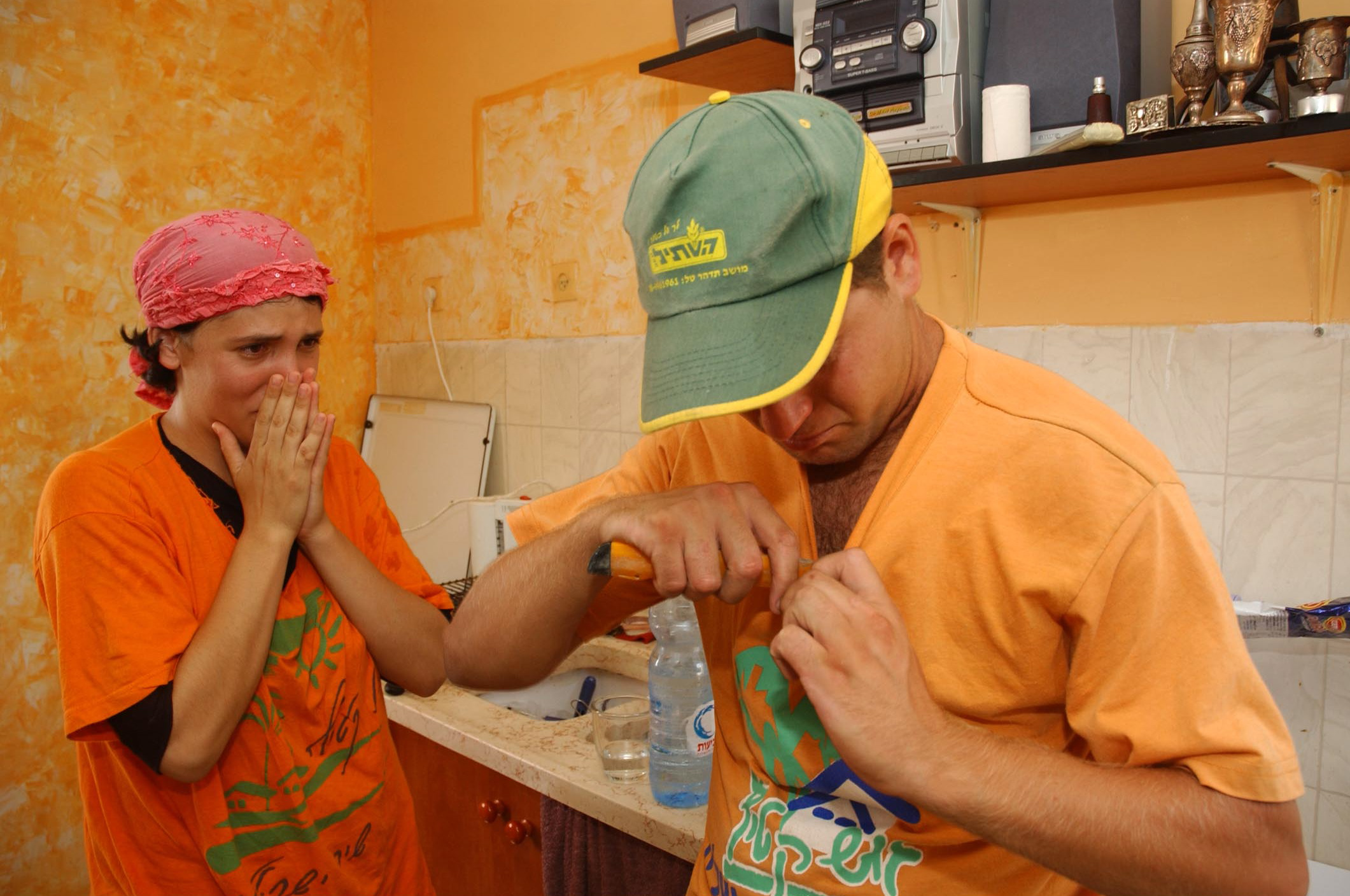 August 18, 2005. A resident doing "keriah" in protest during the evacuation of the Israeli community Shirat Hayam. The evacuation of Shirat Hayam was part of the Gaza Disengagement, which occurred during the summer of 2005.